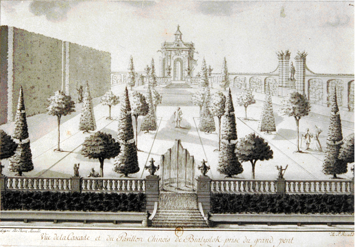 Chinese Pavillon and the Baroque topiary garden, in the Gardens of Branicki Palace, in Białystok, Poland. 8th-century print by architect Pierre Ricaud de Tirregaille (French).